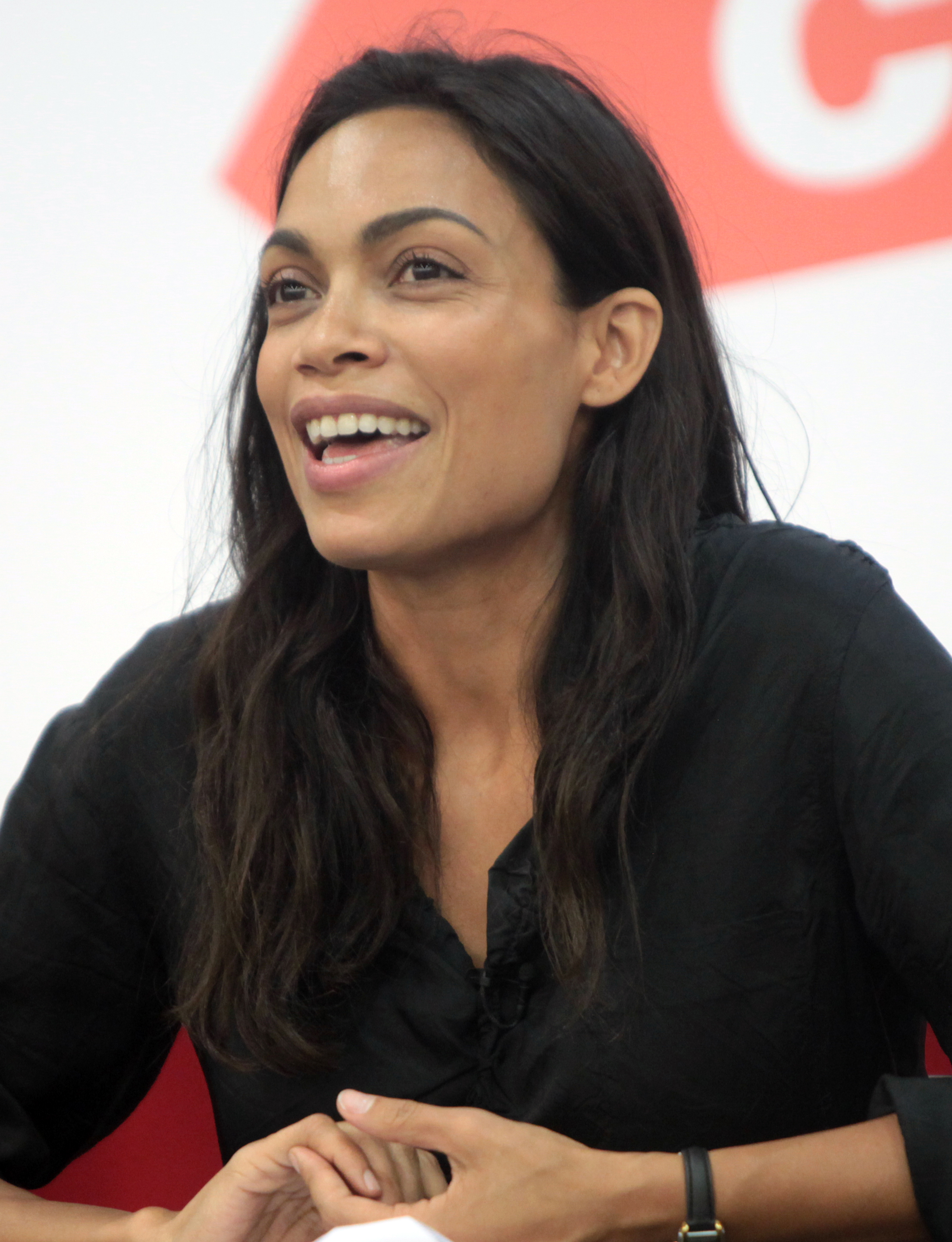 Rosario Dawson speaking at Politicon in Pasadena, California.